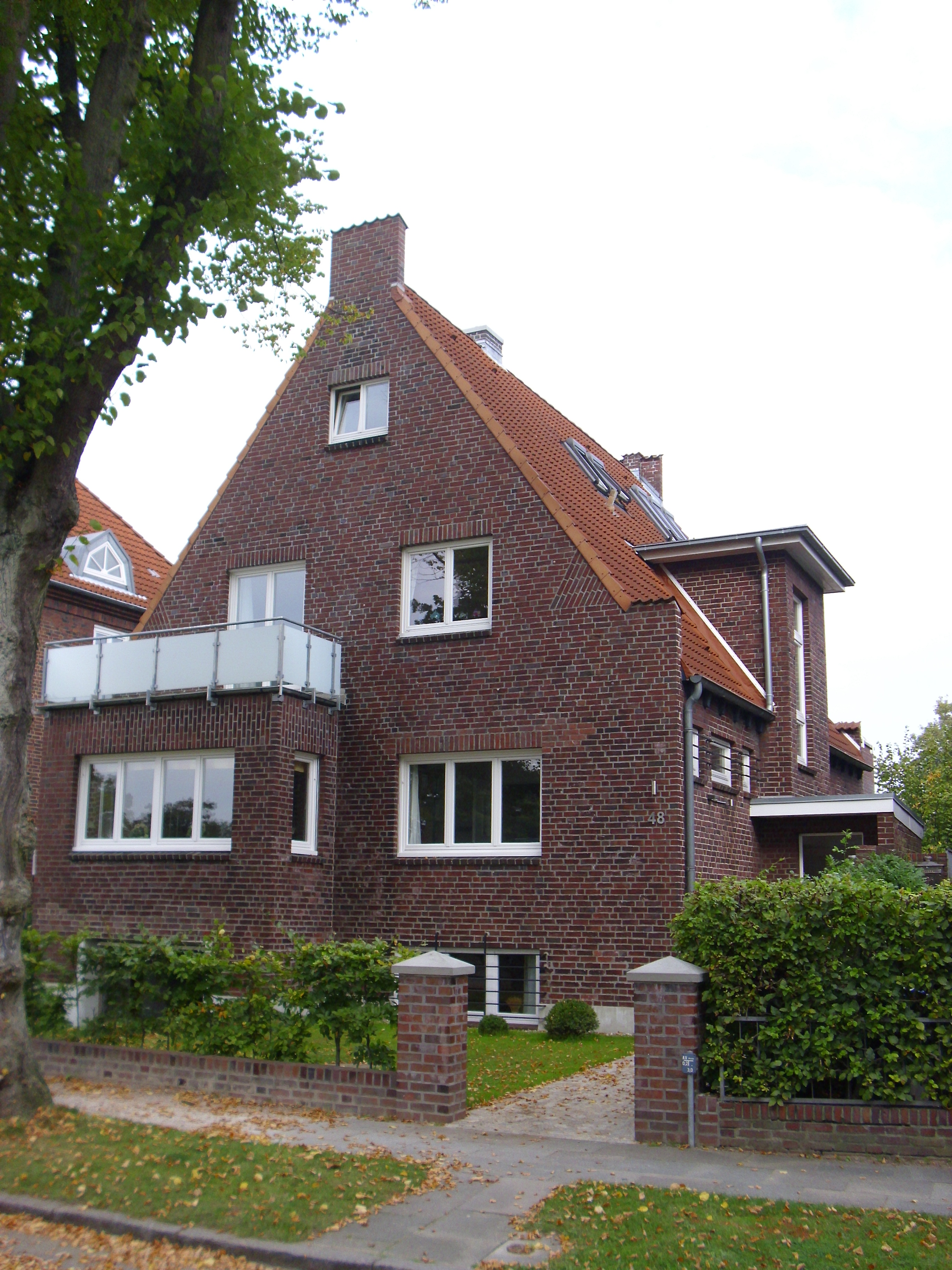 Heinrich-Traun-Straße 48 This is a photograph of an architectural monument.